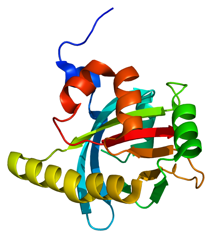 Structure of the SPEN protein. Based on PyMOL rendering of PDB 1ow1.